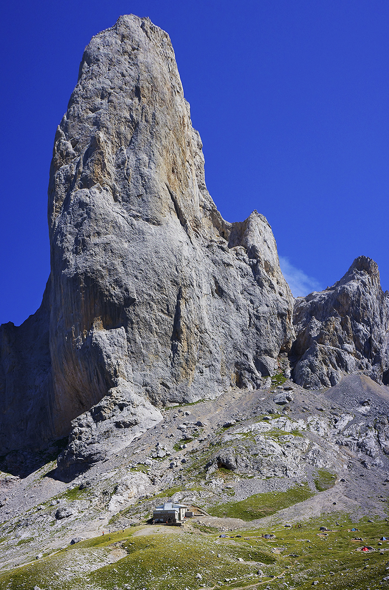 Urriellu peak and shelter from Corona del Raso mountain pass